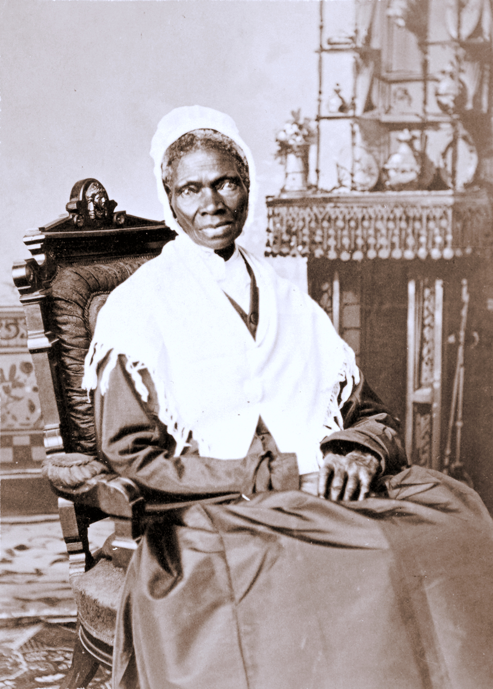 Sojourner Truth, albumen silver print, circa 1870